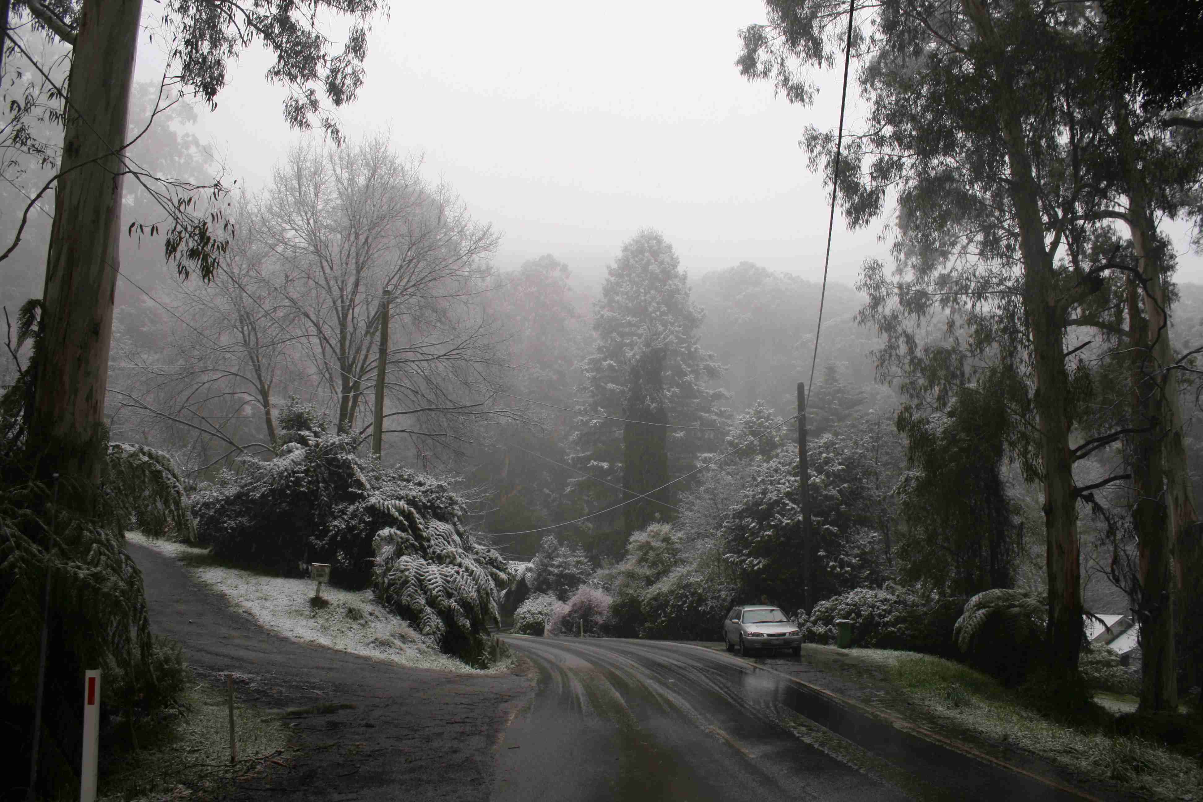 Snow in Ferny Creek, Victoria, Australia, August 10, 2008. At approximately 350 m elevation.